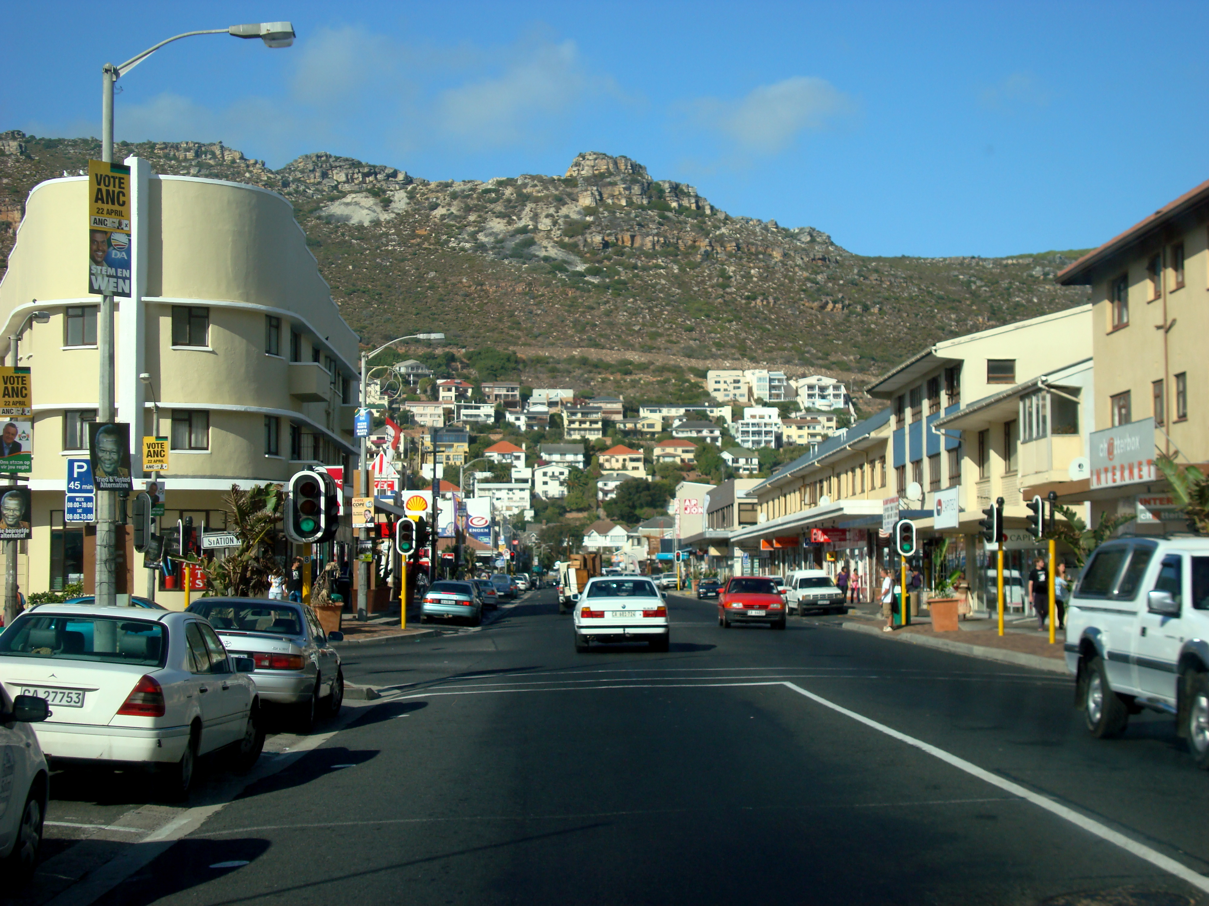 Fish Hoek Main road. Off to Boulders Beach from Cape Town, SA.